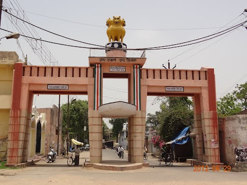 NAUCHANDI FAIR GATE HINDU MUSLIM UNITY SYMBOL HELD EVERY YEAR AFTER HOLI FESTIVAL IN MEERUT